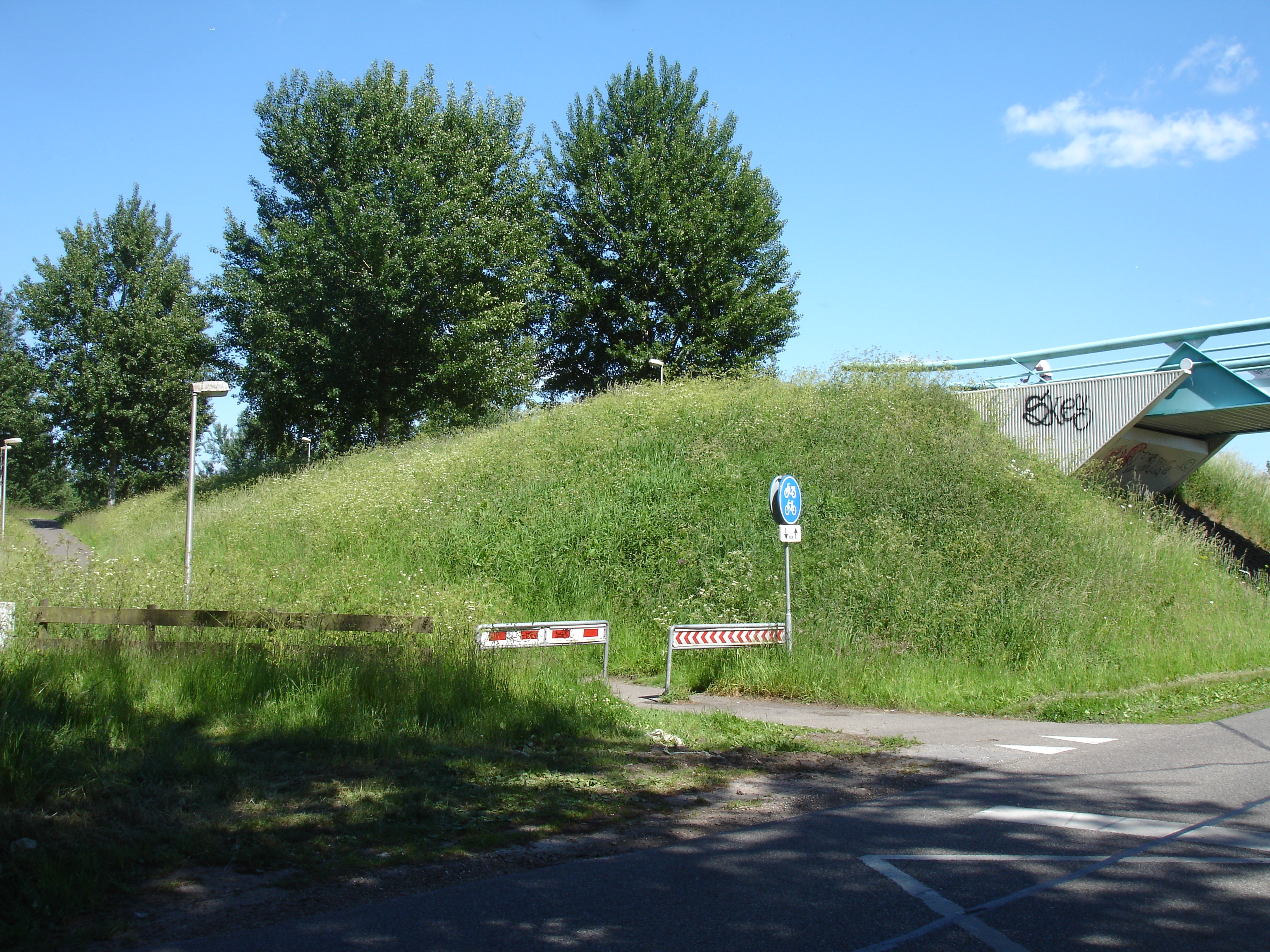 Slingerhek, Hasseler Es